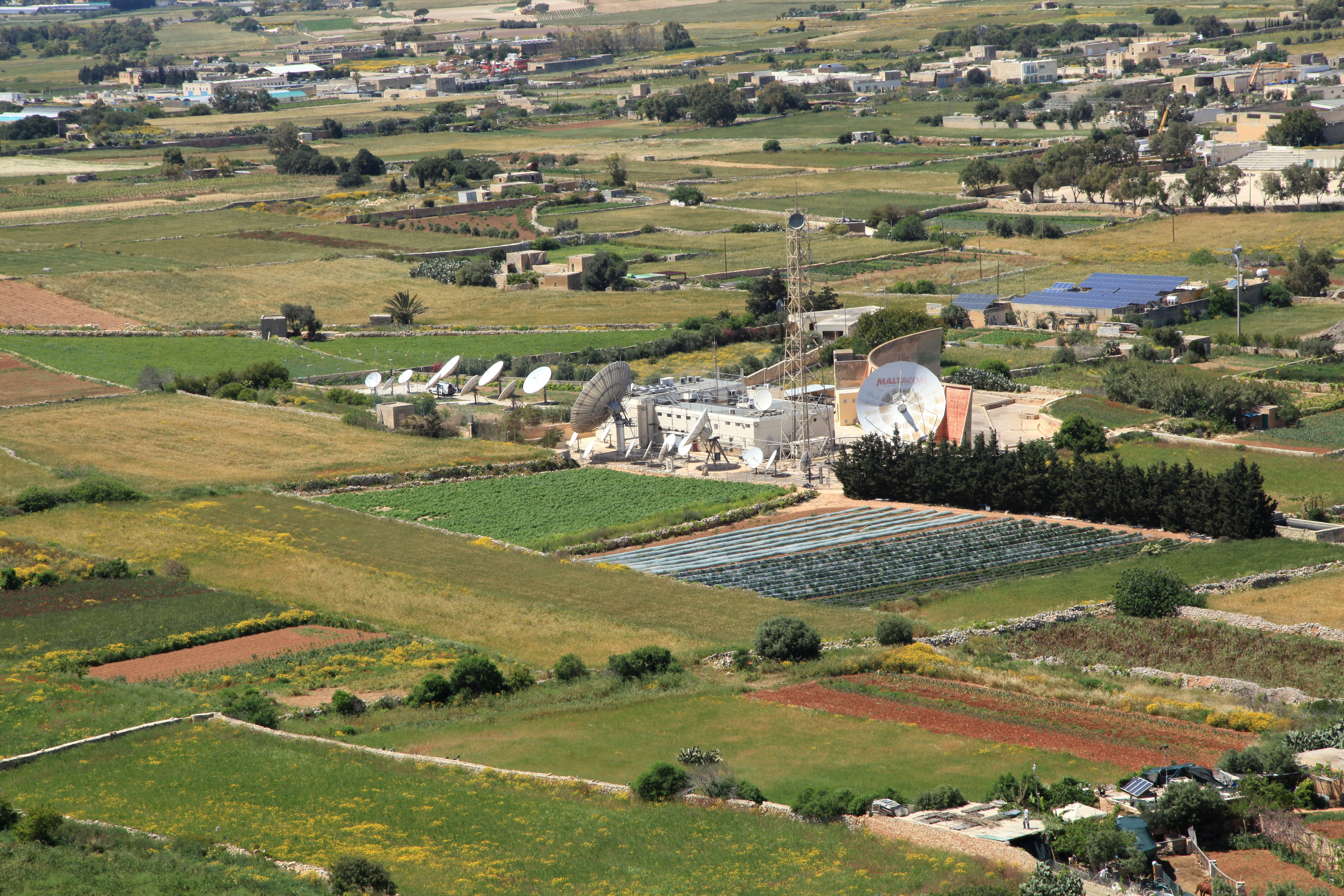 View from Triq Għaxqet l-Għajn in Għargħur down to Triq it-Targa in Naxxar, Malta